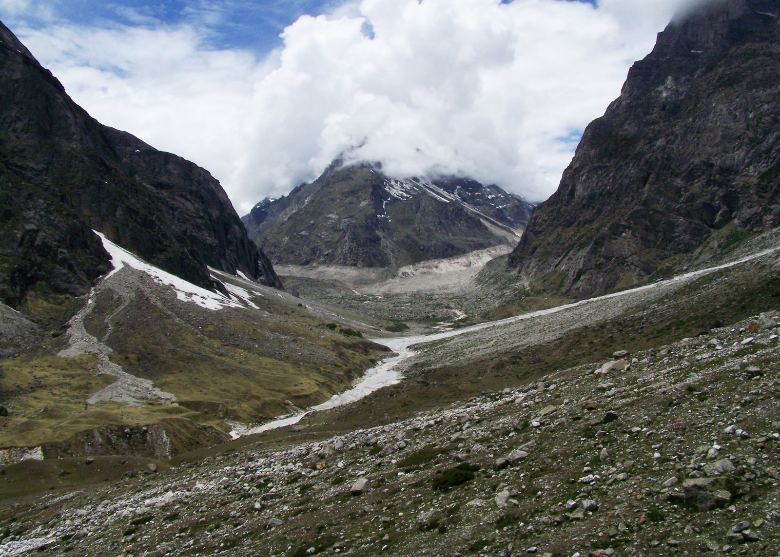 View from Basudhara